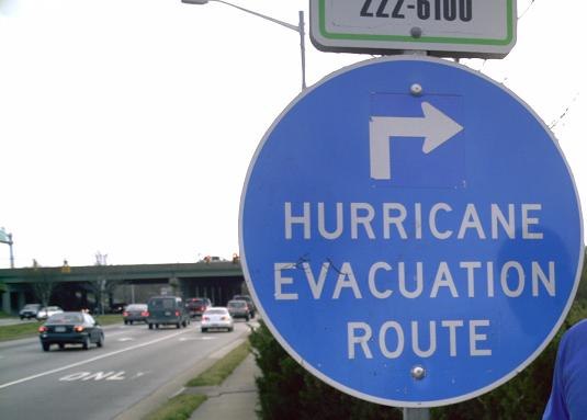 An advertise of hurricane evacuation route in virginia beach